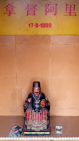 Picture of Malay-Chinese deity Datuk Ali / Na Tuk Ah Li - DatukAli002.jpg